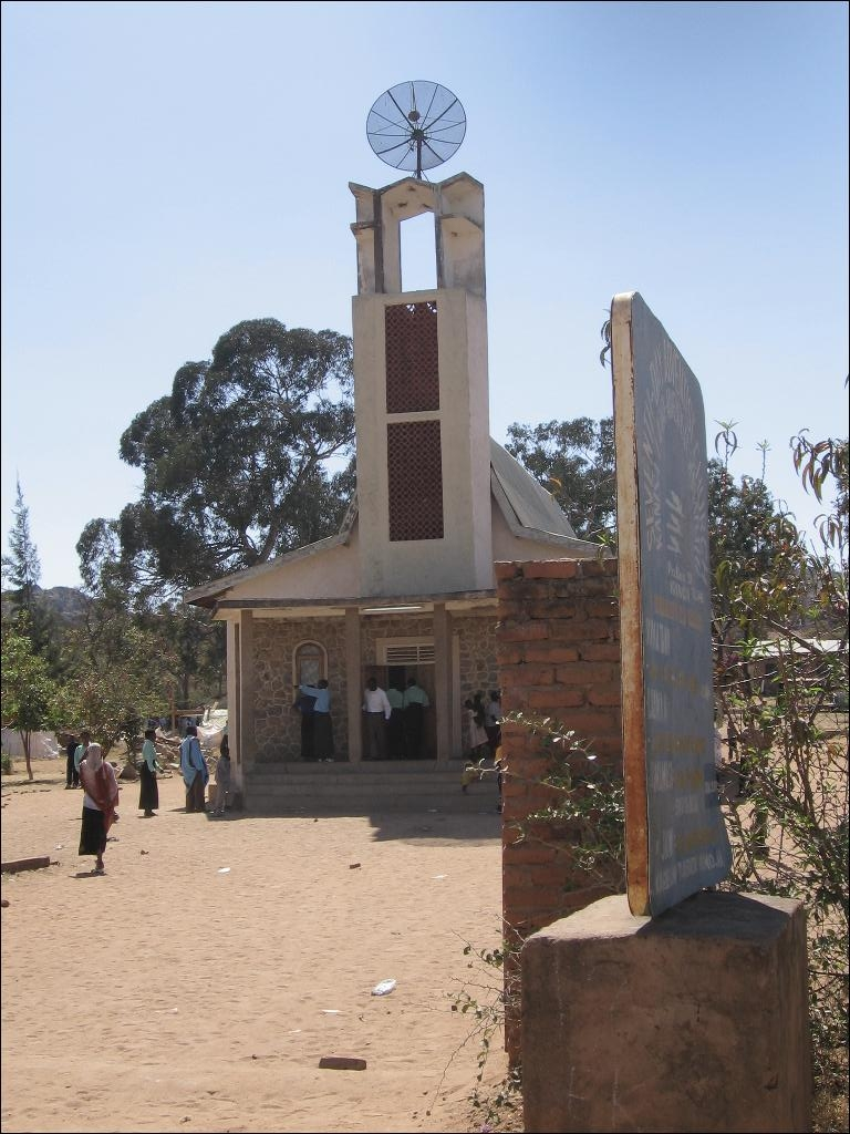 The adventist church in Iringa gity, Tanzania